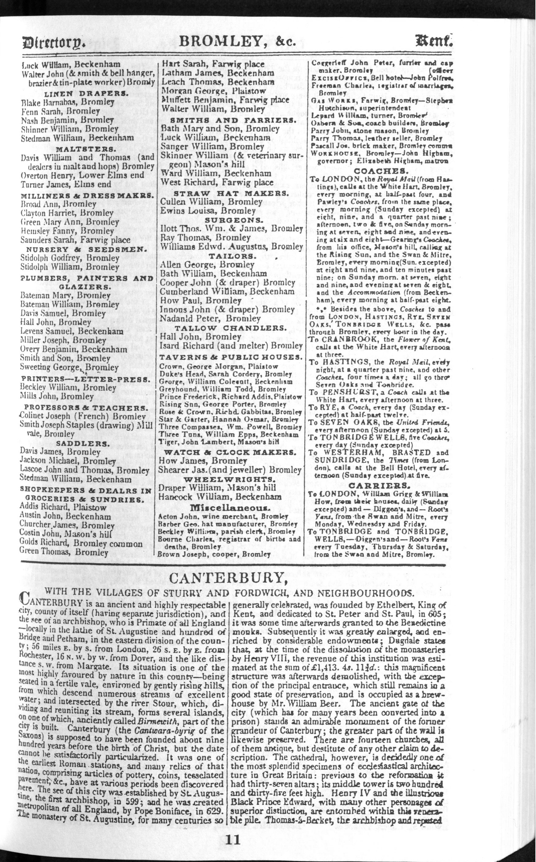 This is a page from an 1839 directory of businesses in the United Kingdom. The directory is "Pigot and co.'s royal, national and commercial directory and topography of the counties of Kent, Surrey, Sussex." This page has information about Bromley and Canterbury in the county of Kent. This page was scanned from a modern facsimile: ISBN 0950406953